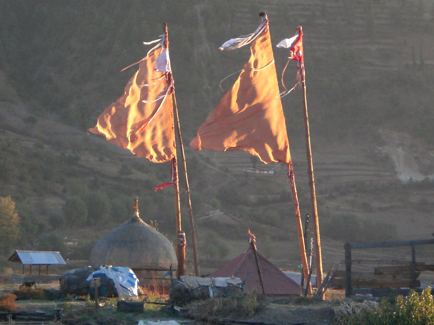 This image is of Chandannath and Bhairabnath Temple situated in Chandannath Municipality of Jumla District of Nepal.